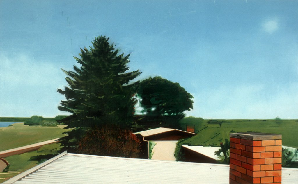 Thoralf Knobloch, Uferweg Süd, 2002, 155 x 245 cm, oil on canvas